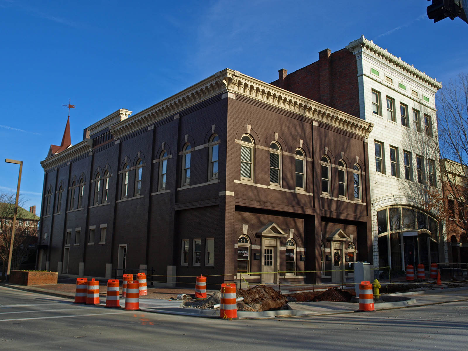 Milligan Block (left) and the May and Cooney Dry Goods Building in Huntsville, Alabama, both listed on the National Register of Historic Places.